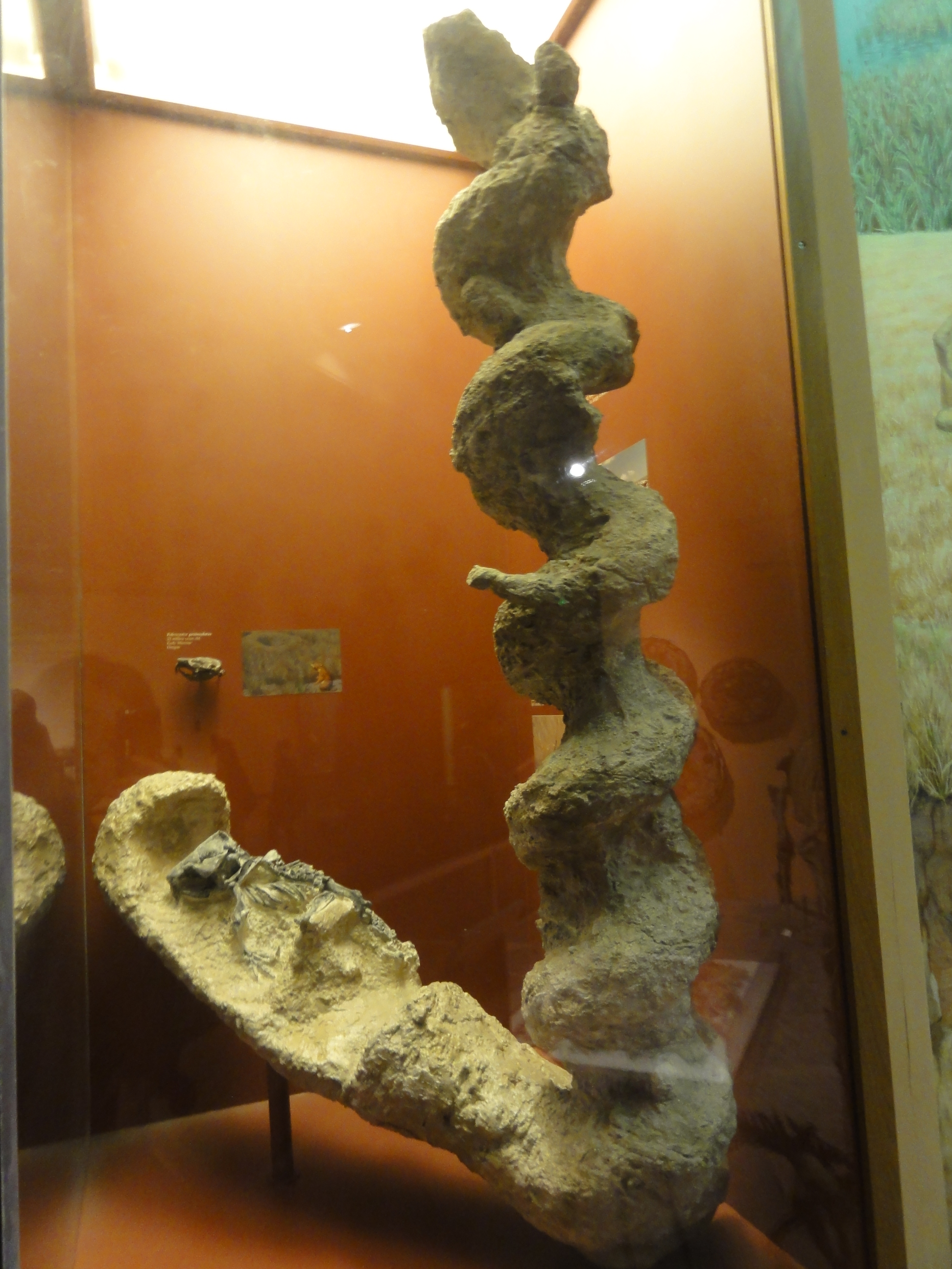 Palaeocastor and burrow in National Museum of Natural History.